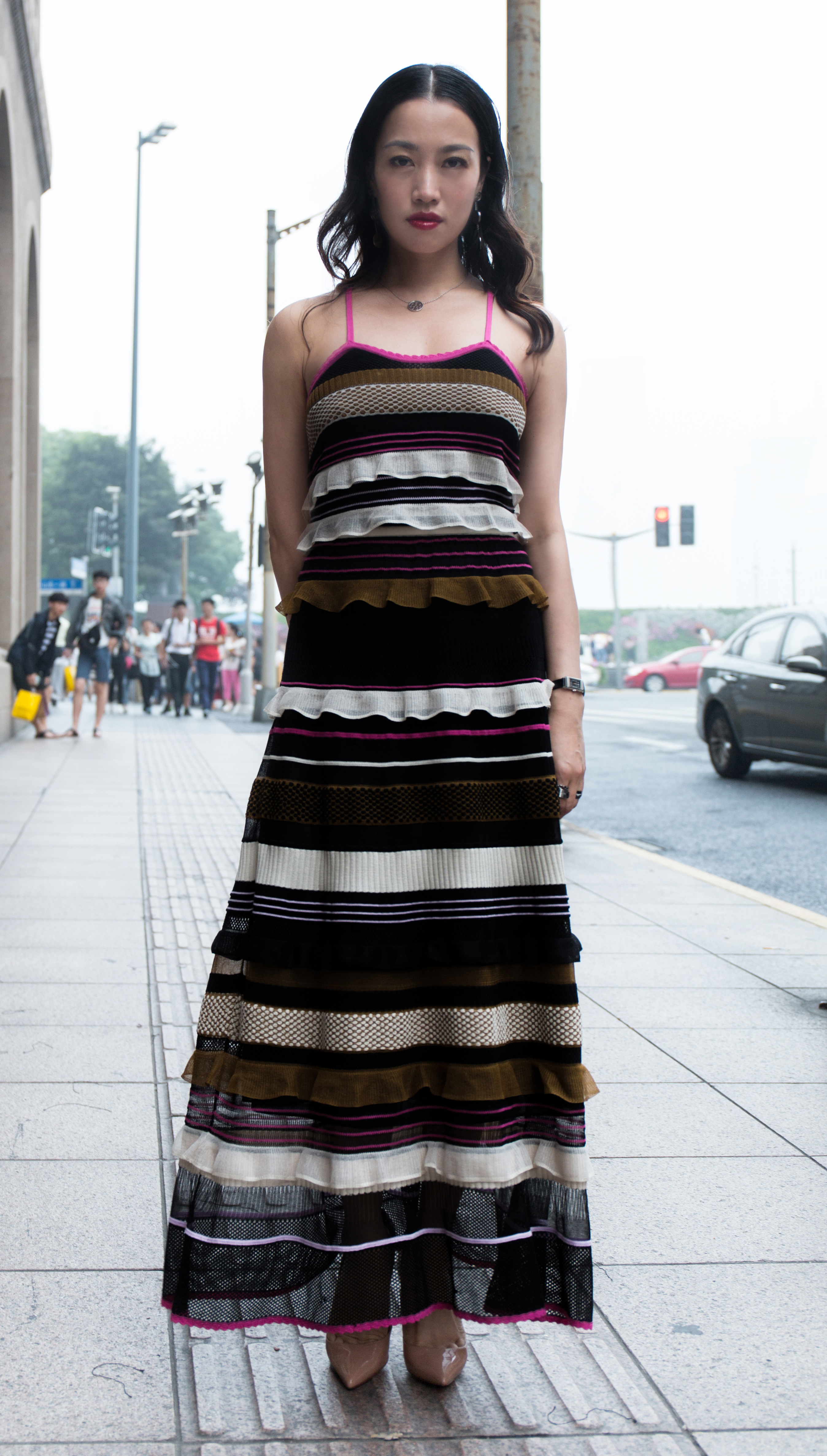 Yi Zhou on Shanghai street.